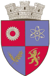 Coat of arms of Mioveni, Romania